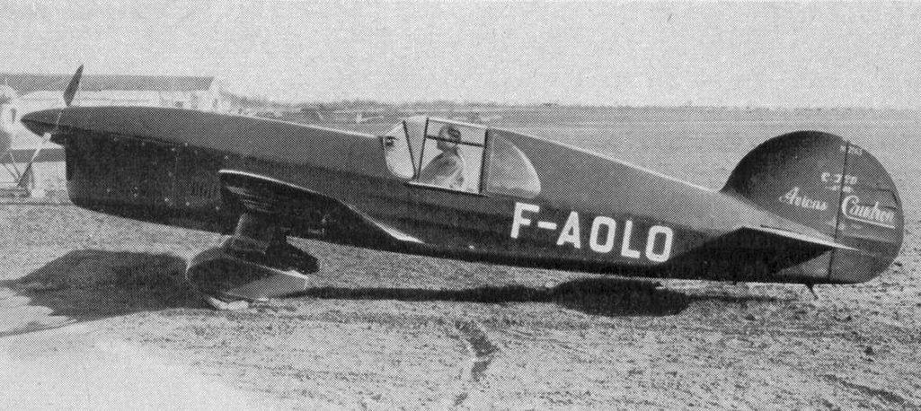 Caudron C.720 photo Le Pontentiel Aérien Mondial 1936